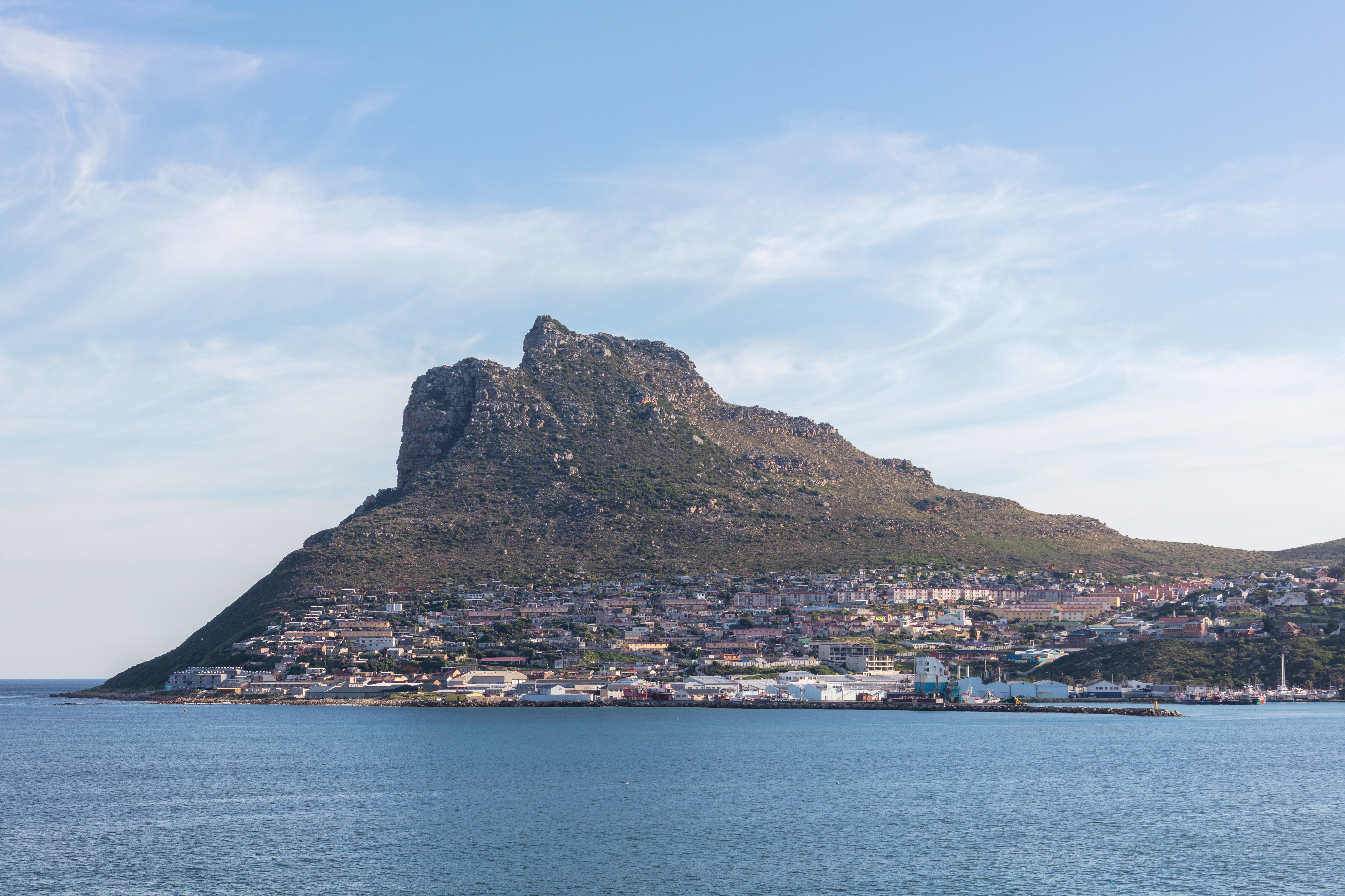 Hout Bay, South Africa